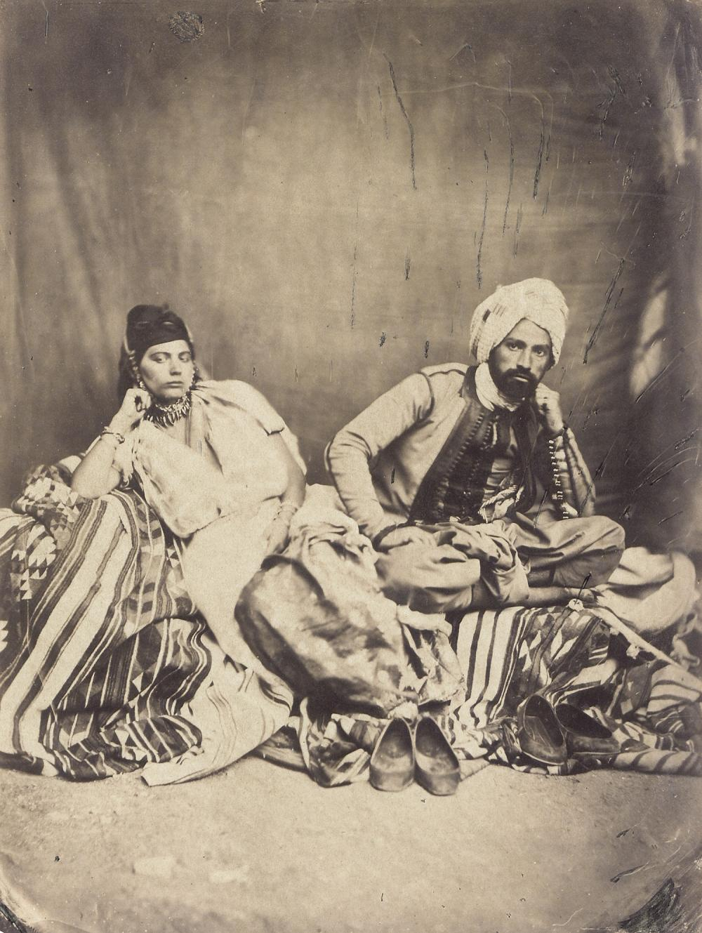 Jewish woman and man at Constantine, circa 1856-1858